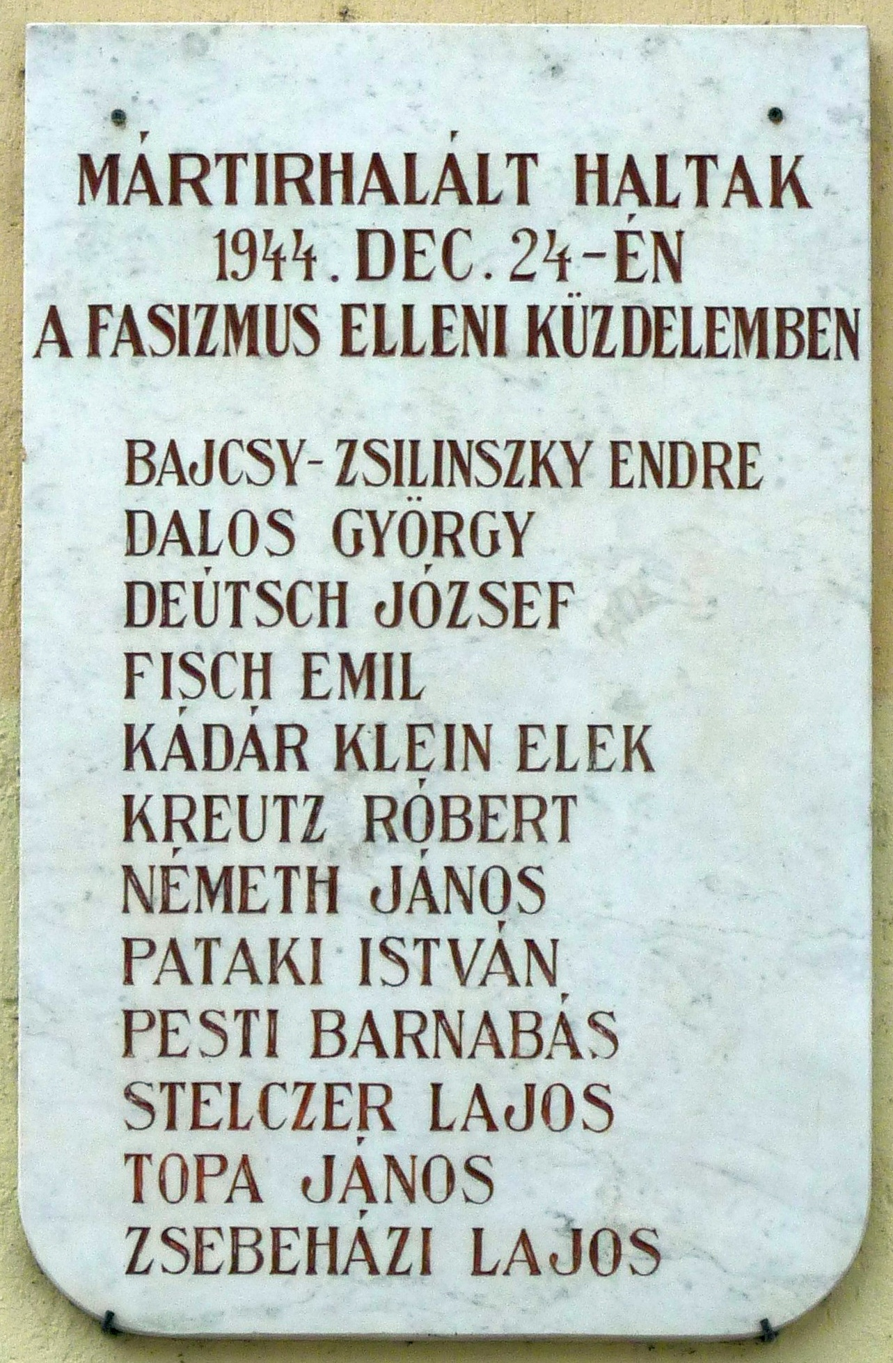 Commemorative plaque to the Hungarian martyrs sentenced to death by the Court Martial of the Arrow Cross and executed December 24, 1944 (Endre Bajcsy-Zsilinszky, György Dalos, József Deutsch, Emil Fisch, Elek Kádár Klein, Róbert Kreutz, János Németh, István Pataky, Barnabás Pesti, Lajos Stelczer, János Topa, Lajos Zsebeházi). It is affixed to the front of the main building of the Penitentiary and Prison of Sopronkőhida. (Sopron, Pesti Barnabás Street Nr 25)